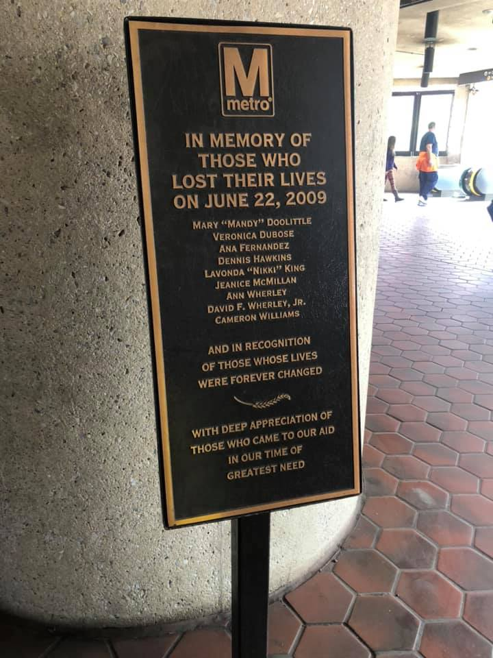 A plaque to show memorial to the 9 people who died in the June 2009 Washington Metro Collision. The Plaque is located in the second level at Fort Totten station